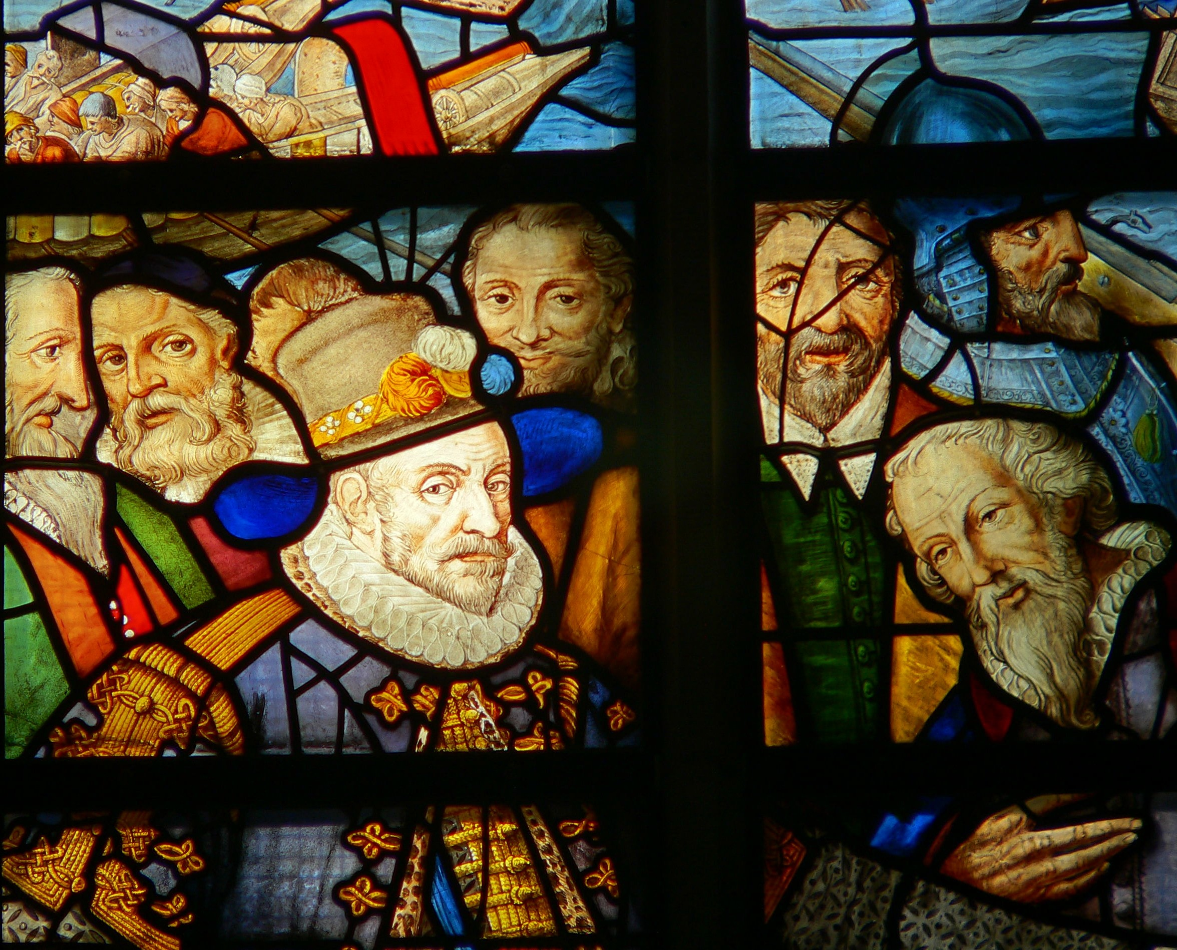 The stained-glass window number 25 (detail) in the Sint Janskerk at Gouda/Netherlands: "The relief of Leiden"